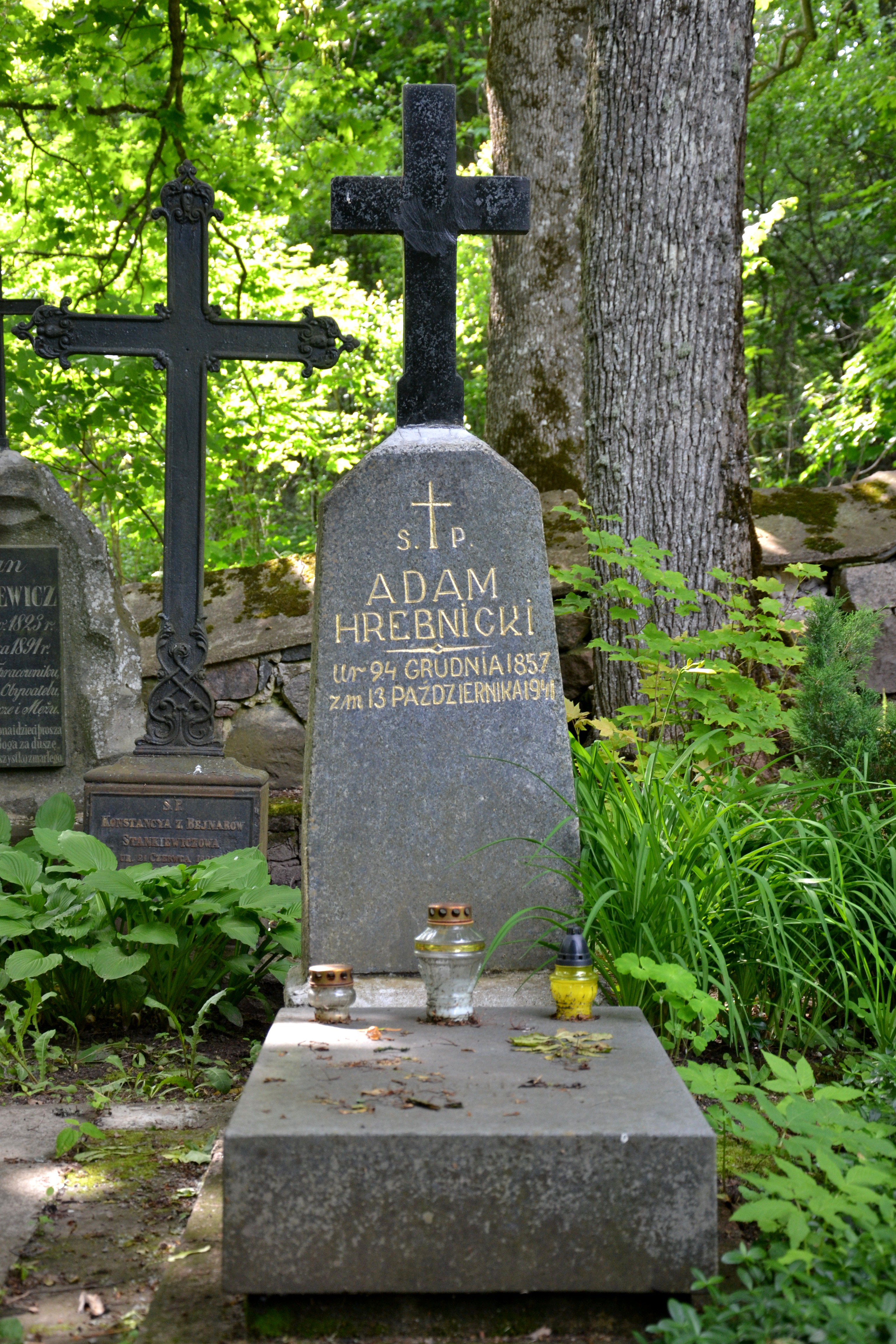 Tomb of Adam Hrebnicki, Dūkšteliai, Ignalina district, Lithuania